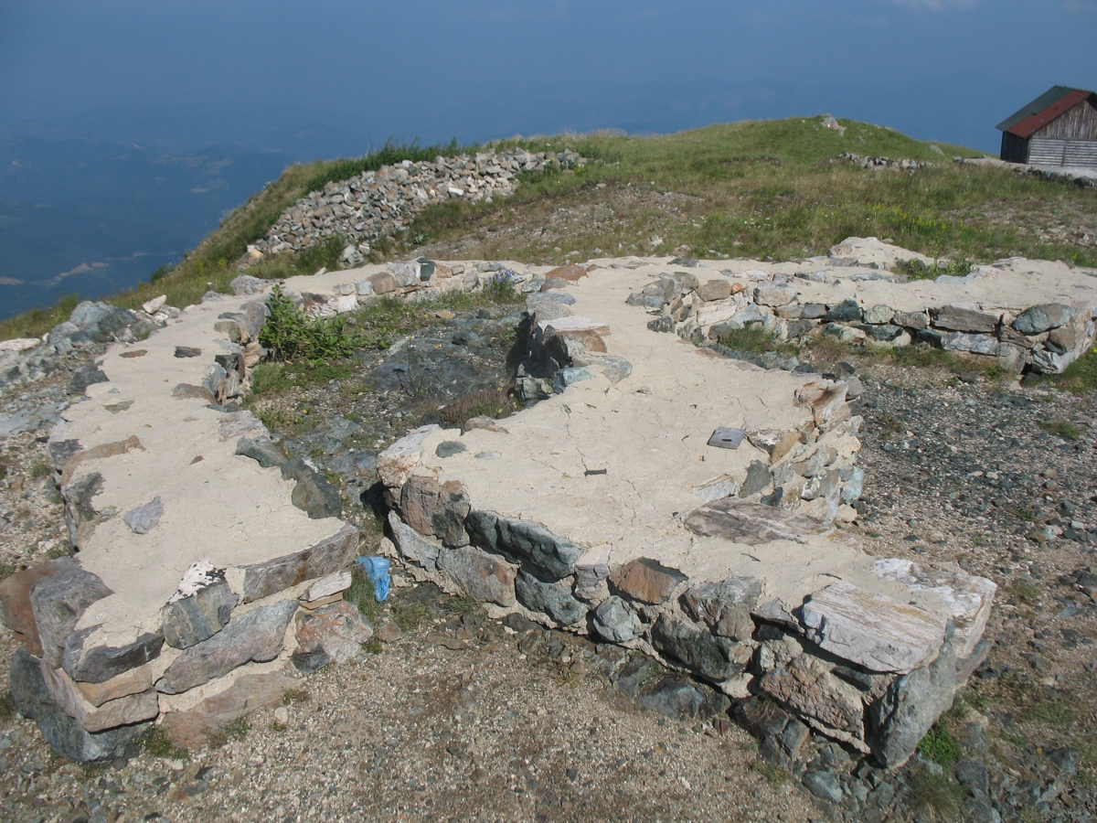 Double apse on bazilika on Nebeske stolice (Cellestial chairs) archaeological site below Pančićs peak on Kopaonik,Serbia.